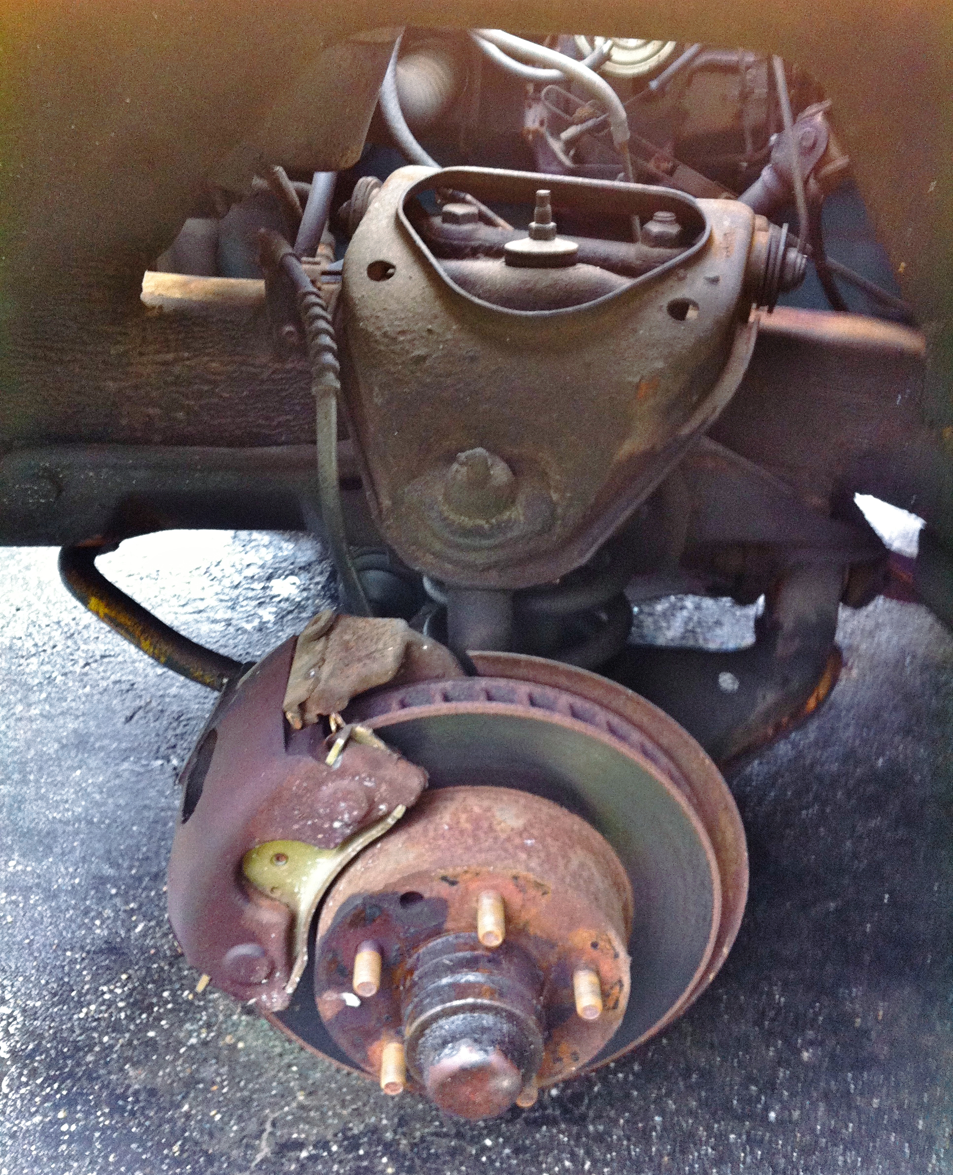 Detail of the AMC Pacer (made by American Motors Corporation) right front disc brake and isolated suspension system. Picture taken of an automobile in road use, not a show car!